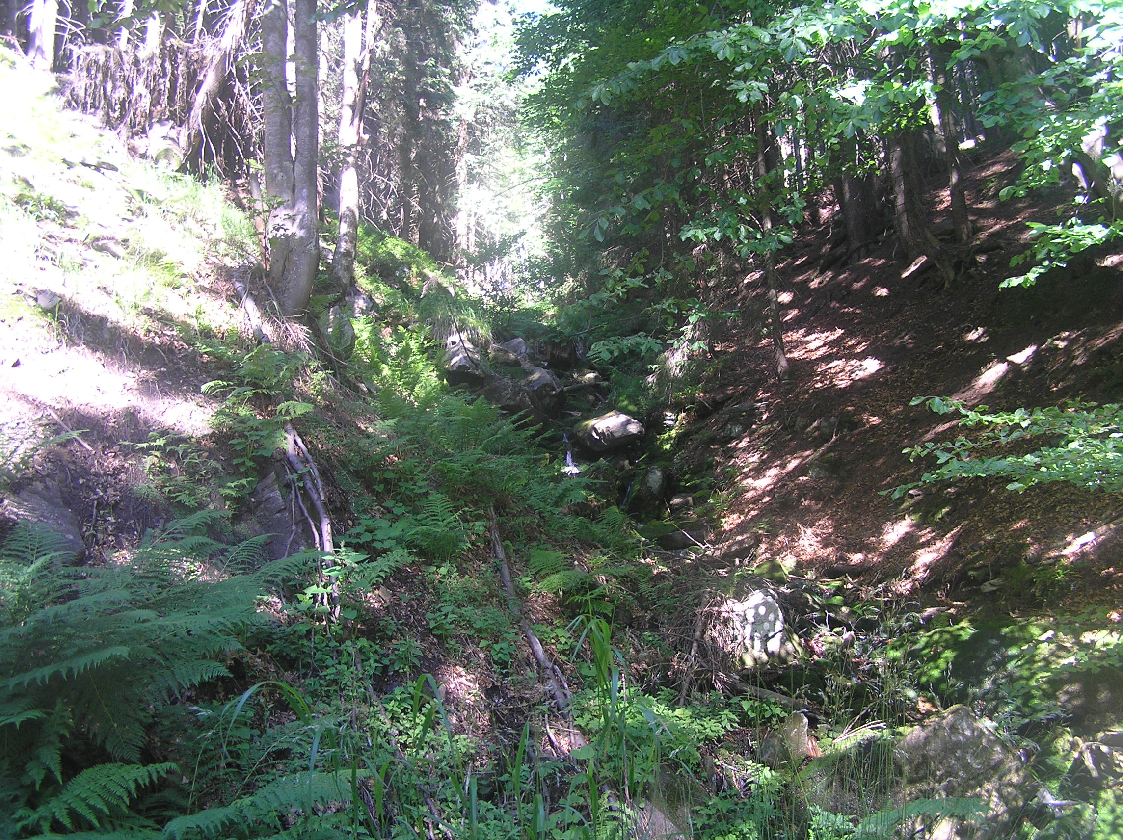 Chrastický potok, Králický Sněžník Mountains, Czech Republic